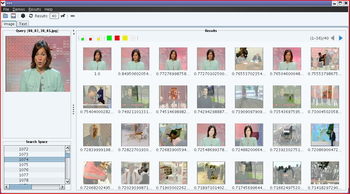 A screenshot of a program called GOS, developed by the Universitat Politècnica de Catalunya, and licensed by CC (Creative Commons)